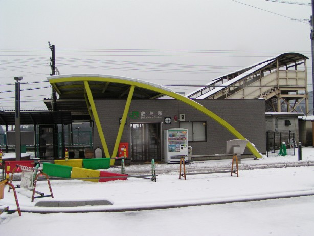 Shikishima Station of the Jōestu Line, Shibukawa, Gunma, Japan